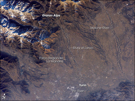 Astronaut photo of Turin with major landmarks annotated. Taken from the International Space Station.